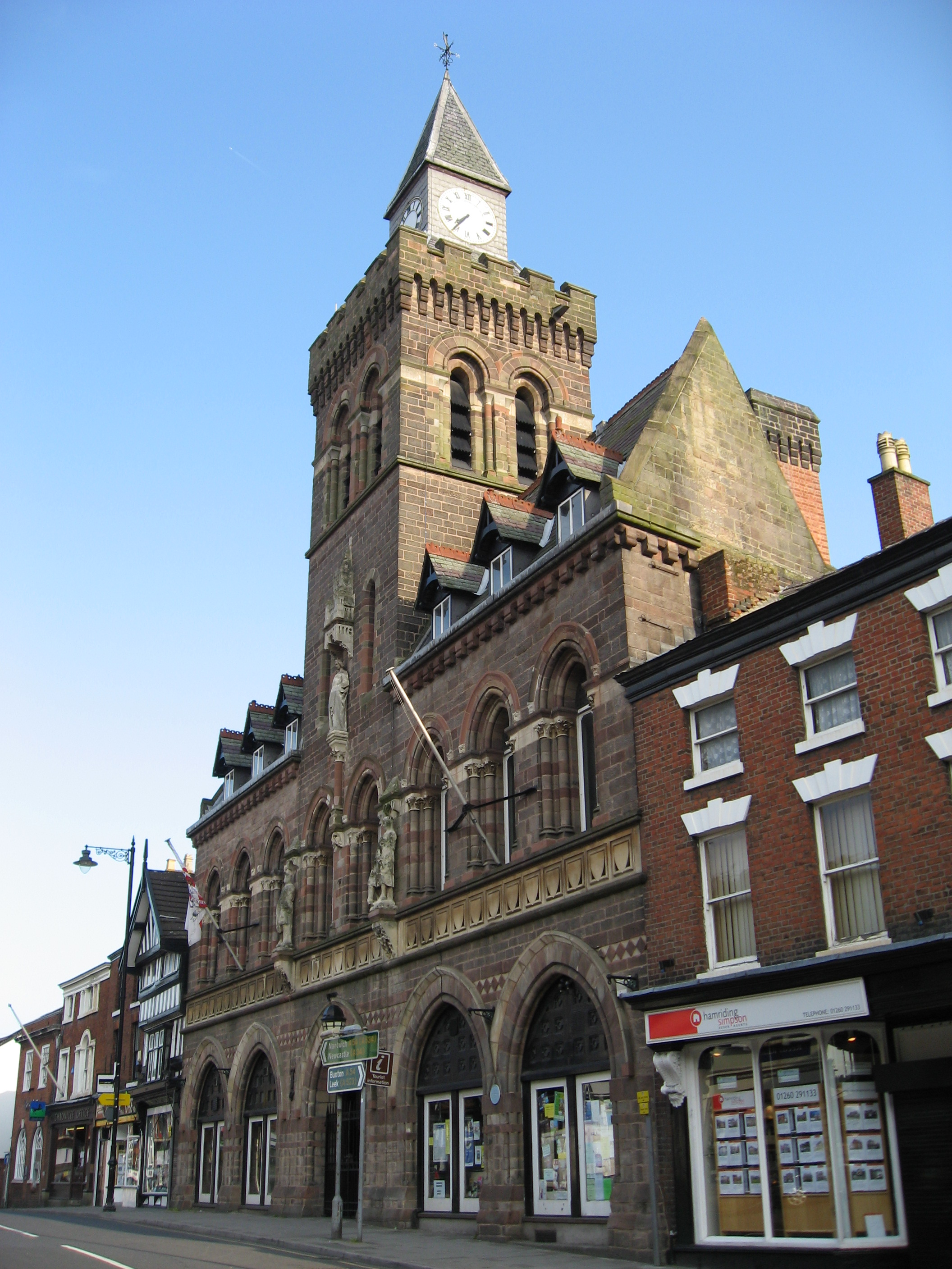 Congleton Town Hall. Congleton Is a historic market town in Cheshire.